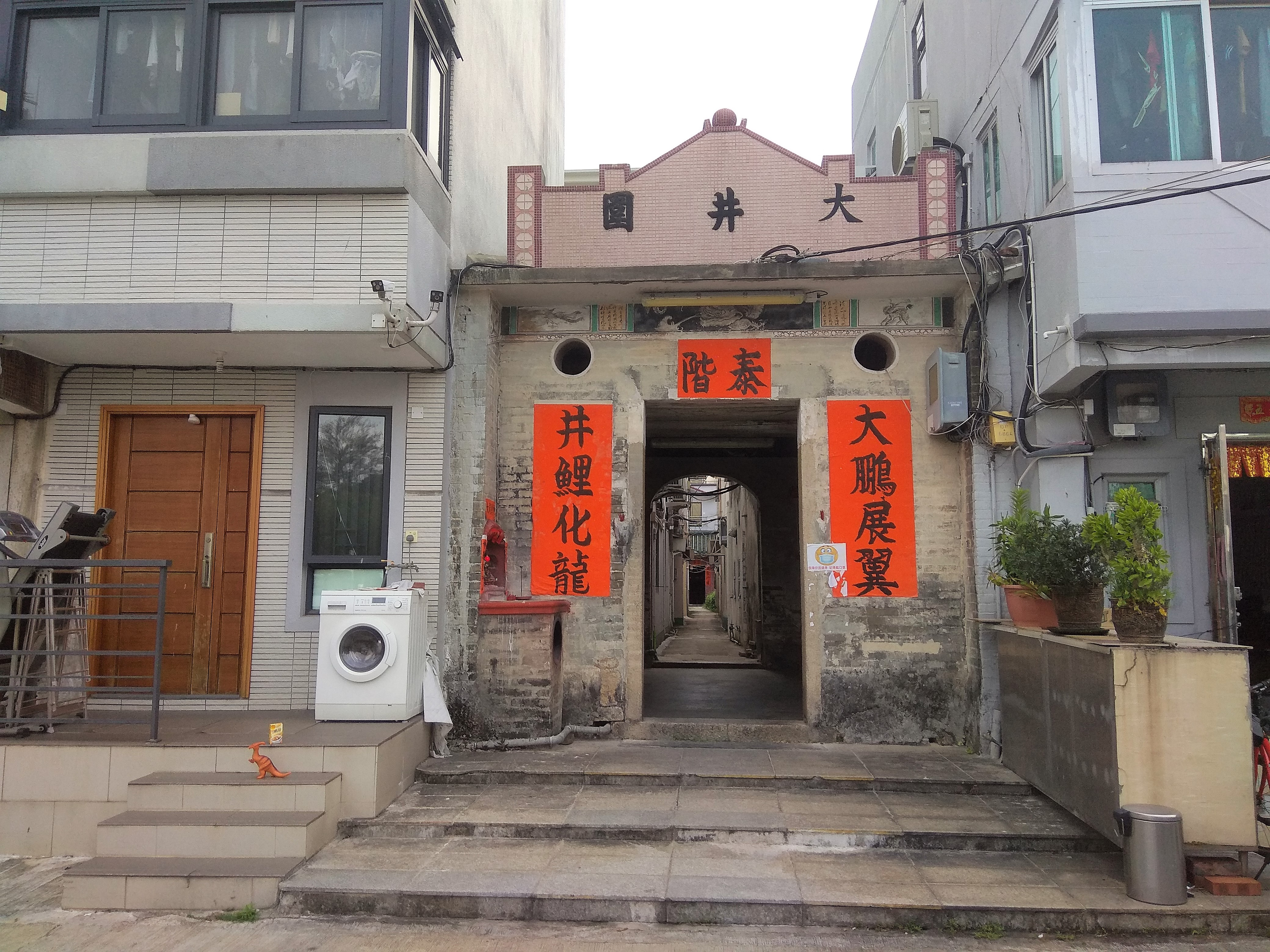 Tai Tseng Wai